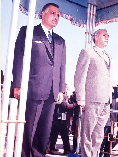 Egyptian President Gamal Abdel Nasser receives Syrian President Amin al-Hafiz for the Arab League in Cairo, Egypt on his arrival to the airport